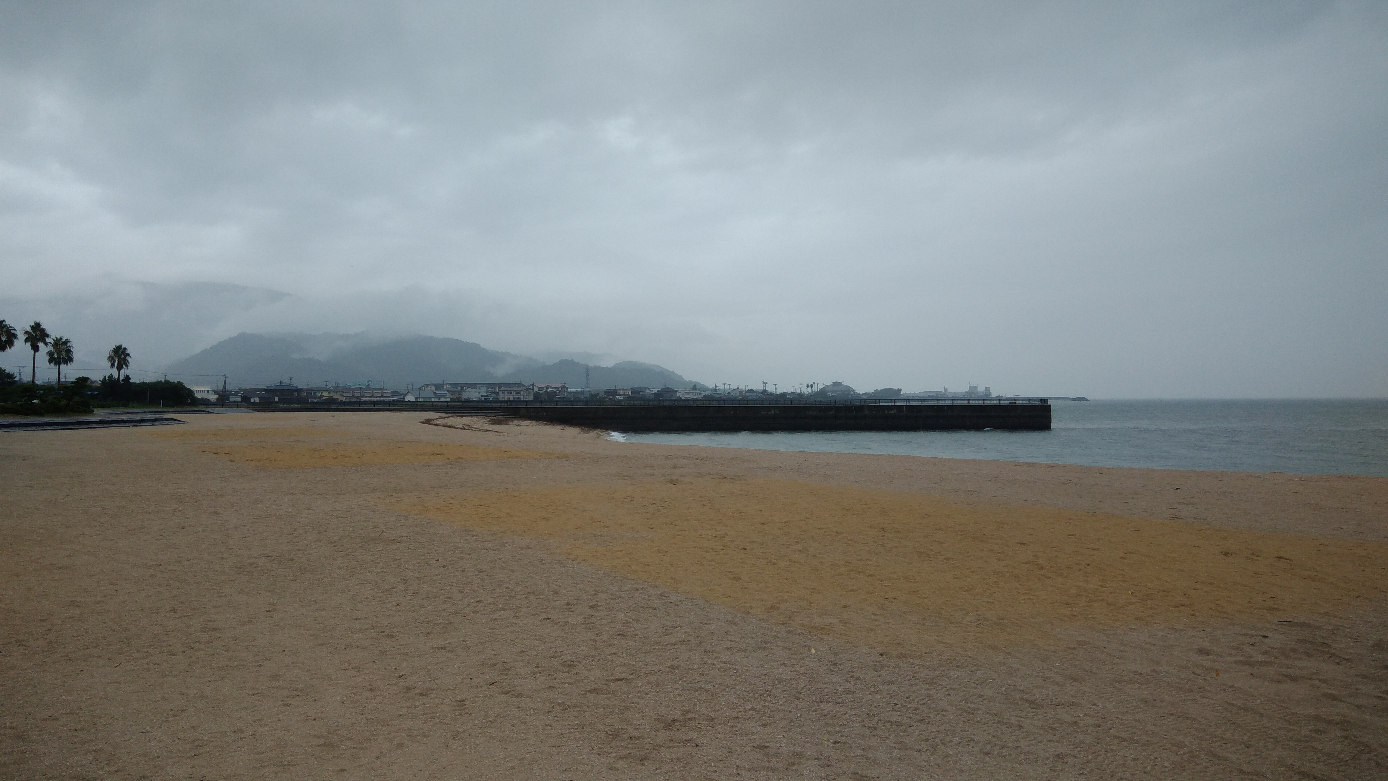 The beach of Goshikihime Kaihin Park (五色姫海浜公園), Iyo City, Ehime Prefecture, Japan